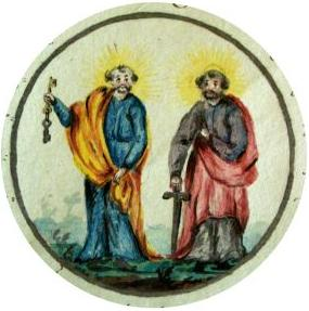 Coat of Arms of Simnas city in 1792